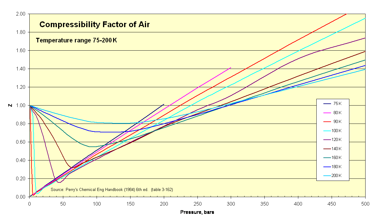 Compressibility Factor of Air (Z), temperature range 75–200 K. (Note that in the figure kelvins are erroneously shown as "°K".)